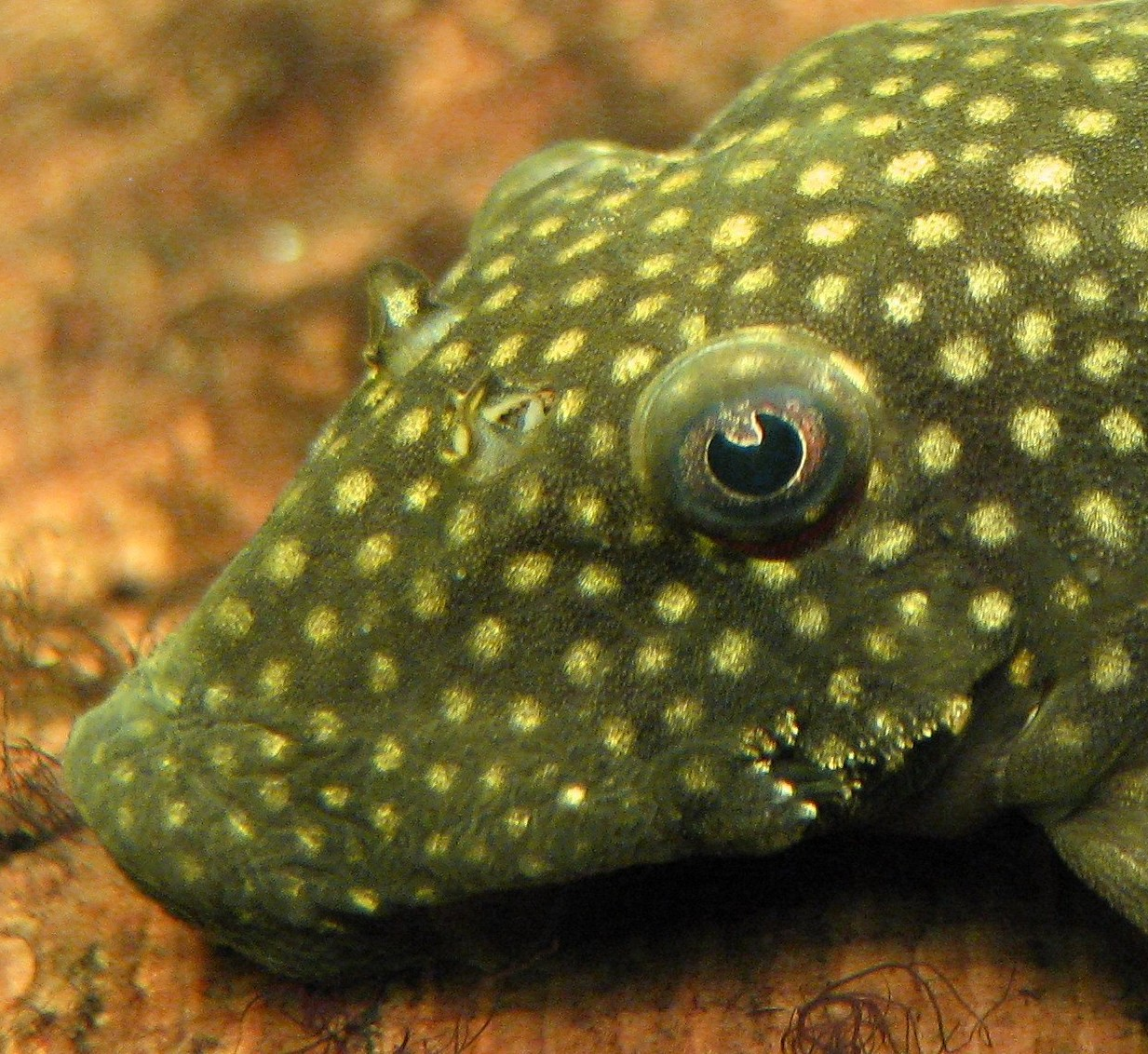 Ancistrus head details, showing aspects of the eye